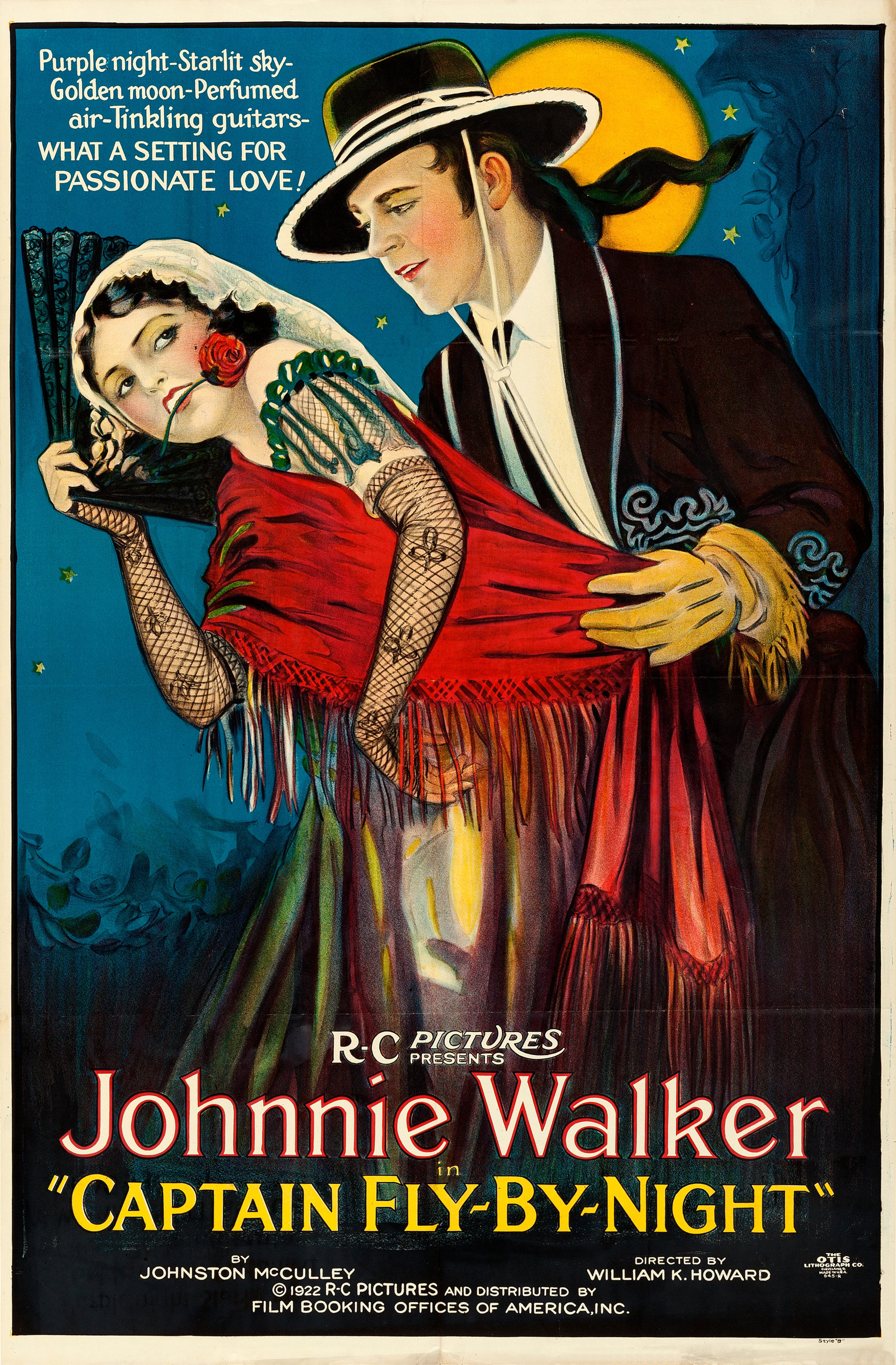 This is an poster for the 1922 American drama film Captain Fly-by-Night.